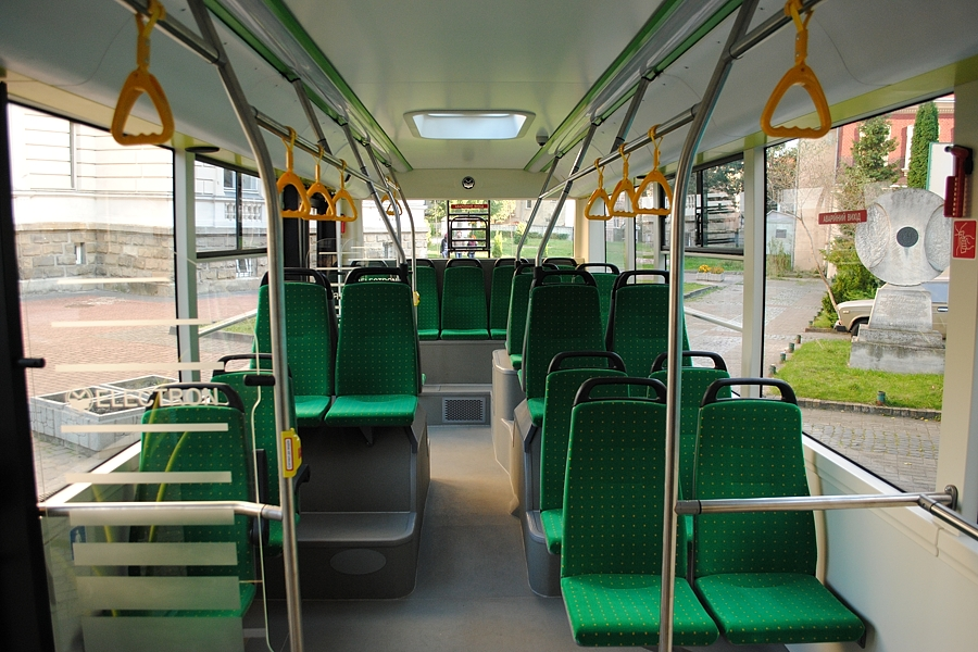 Electron T19101 trolleybus on Lvivsky Tovarovyrobnyk Expo.